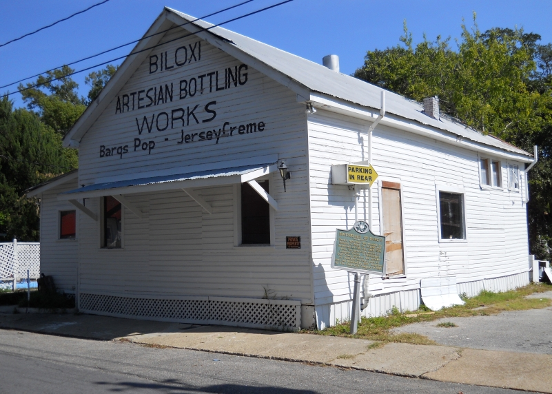 Barq's root beer was created by Edward C. Barq in 1898 and was produced on this site in Biloxi, Mississippi, until 1936.